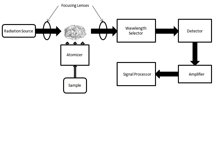 Block Diagram of Atomic Absorption Instrument